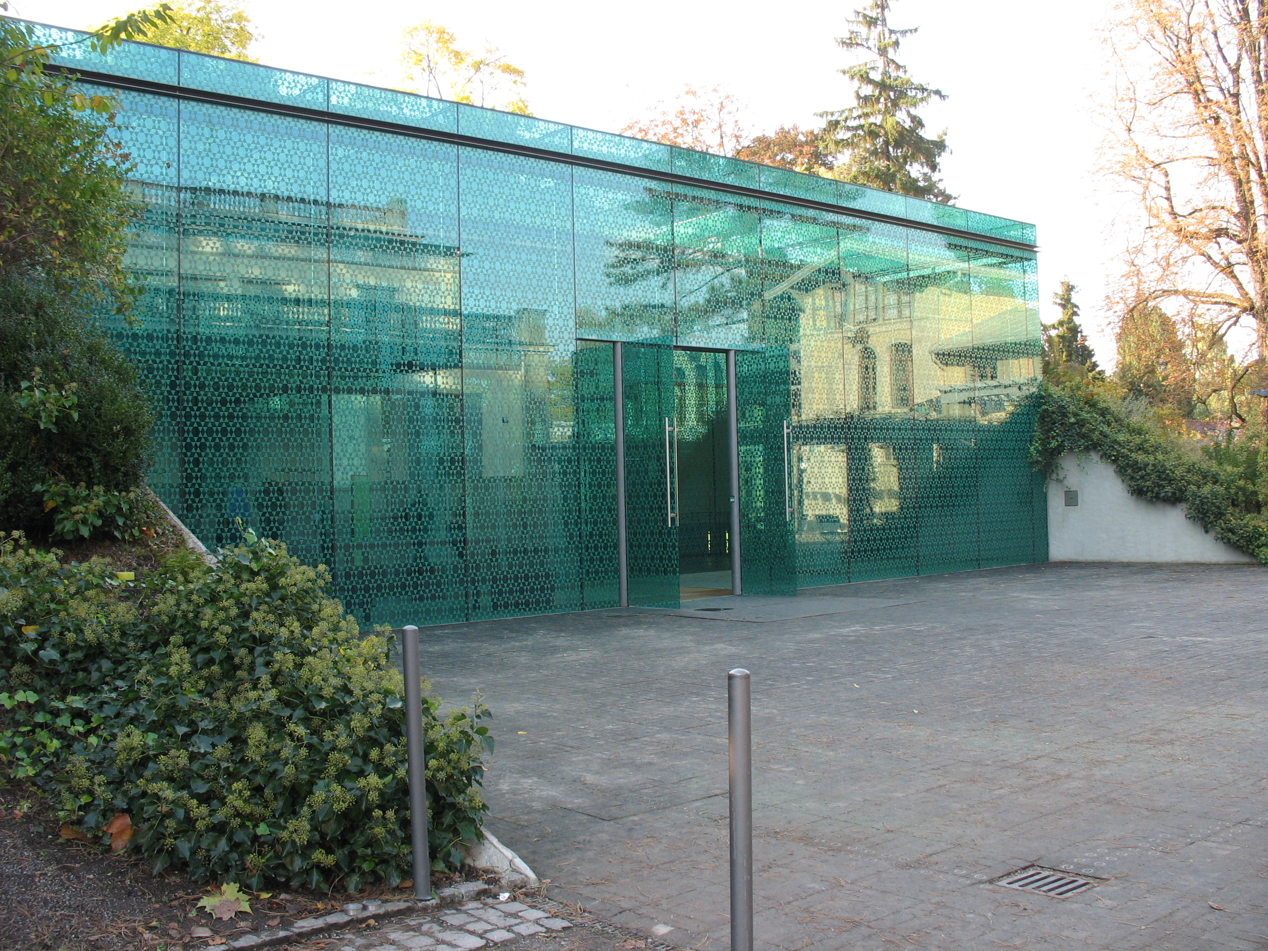 Museum of Asian art